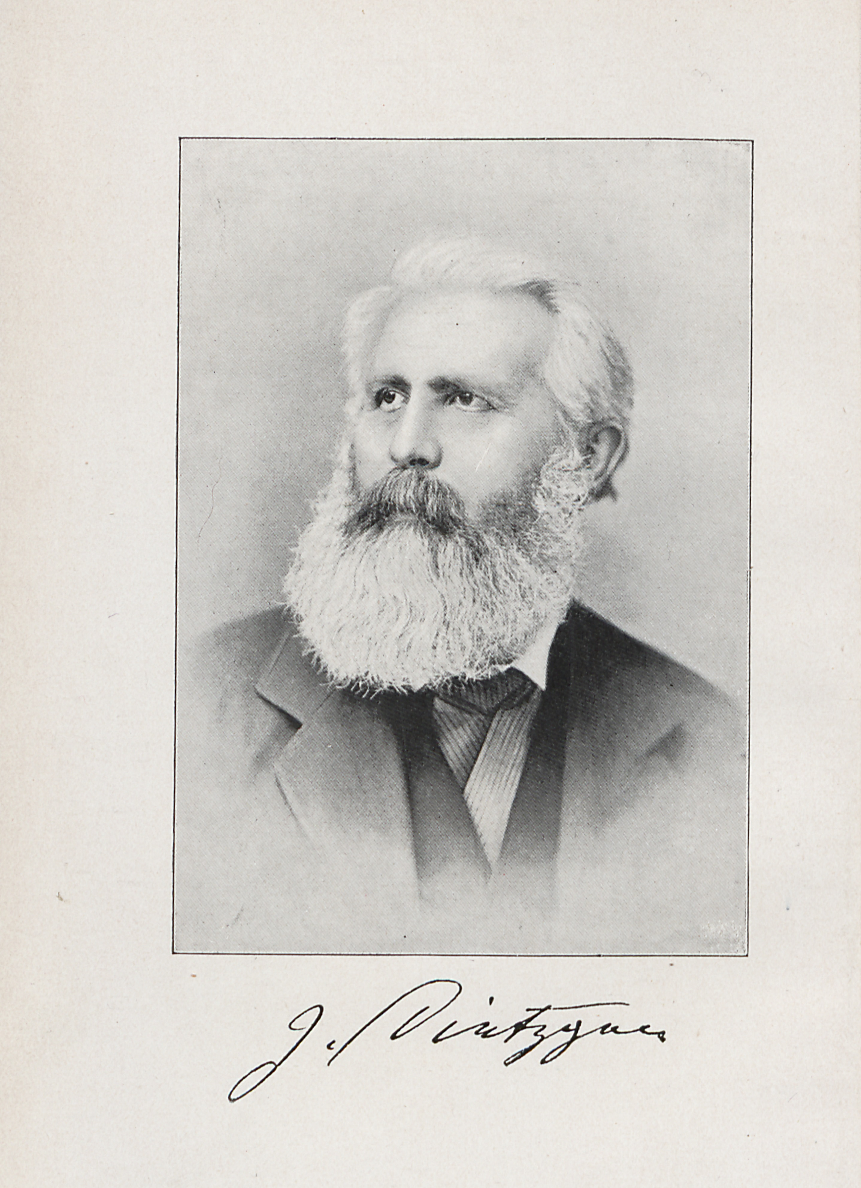 Josef Dietzgen